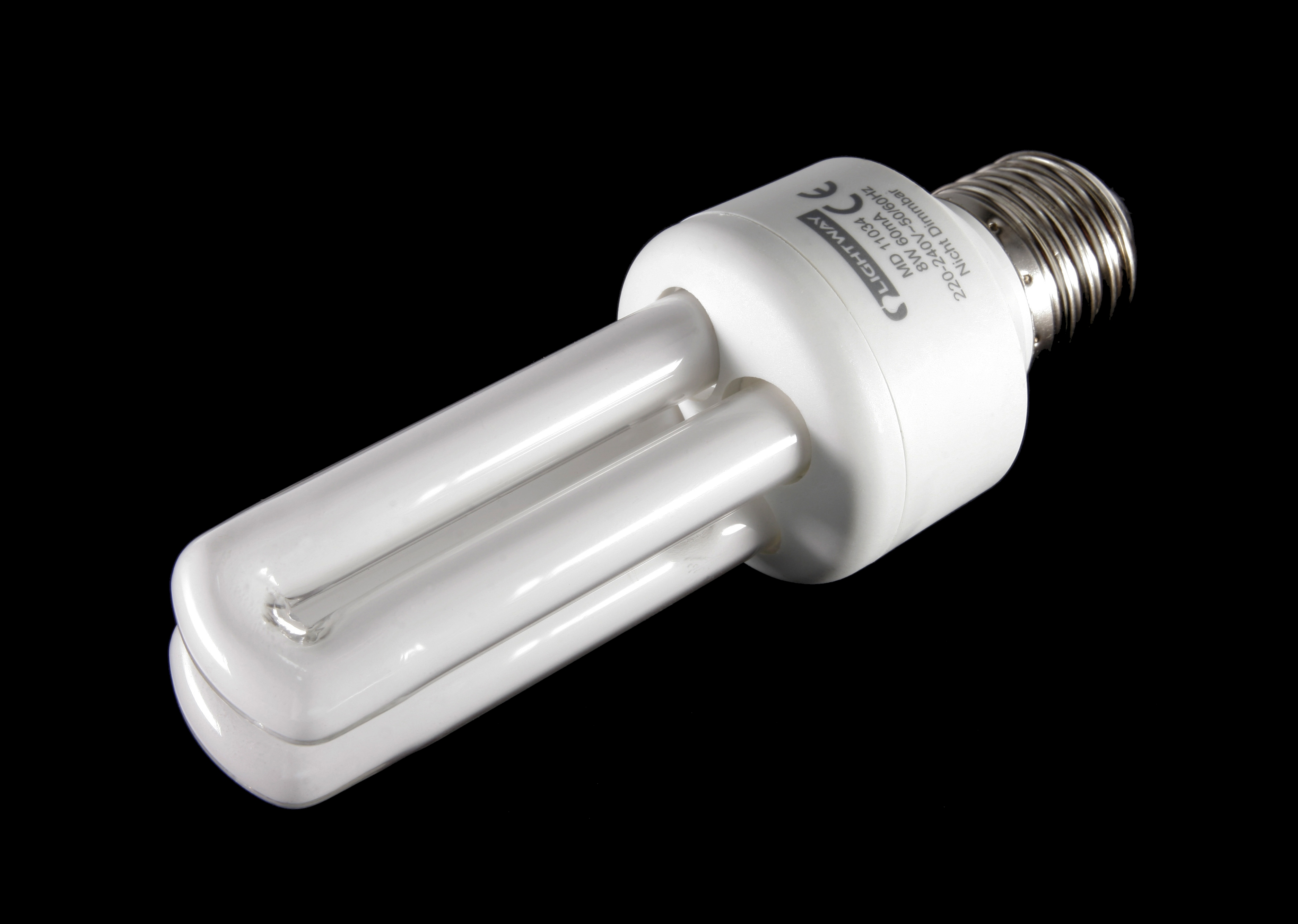 Modern fluorescent light bulb with E27 thread for 220..240 Volts AC with 8 Watts power